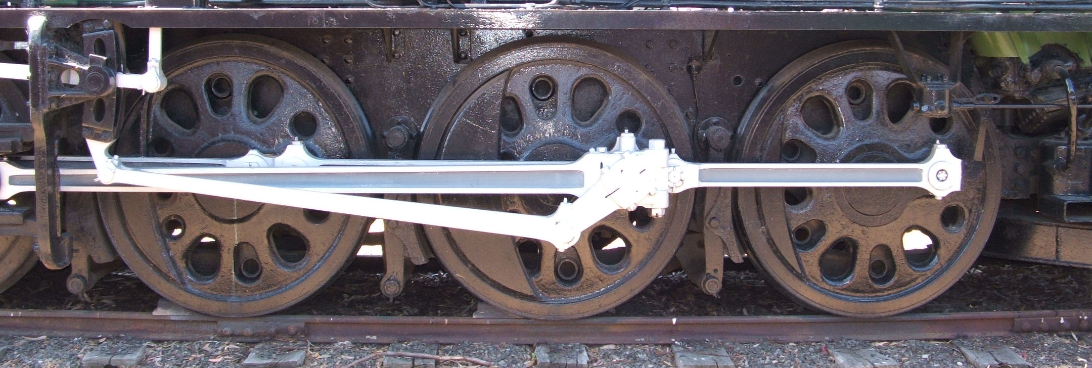 'Boxpok' driving wheels on Victorian Railways N class 2-8-2 steam locomotive N 432.